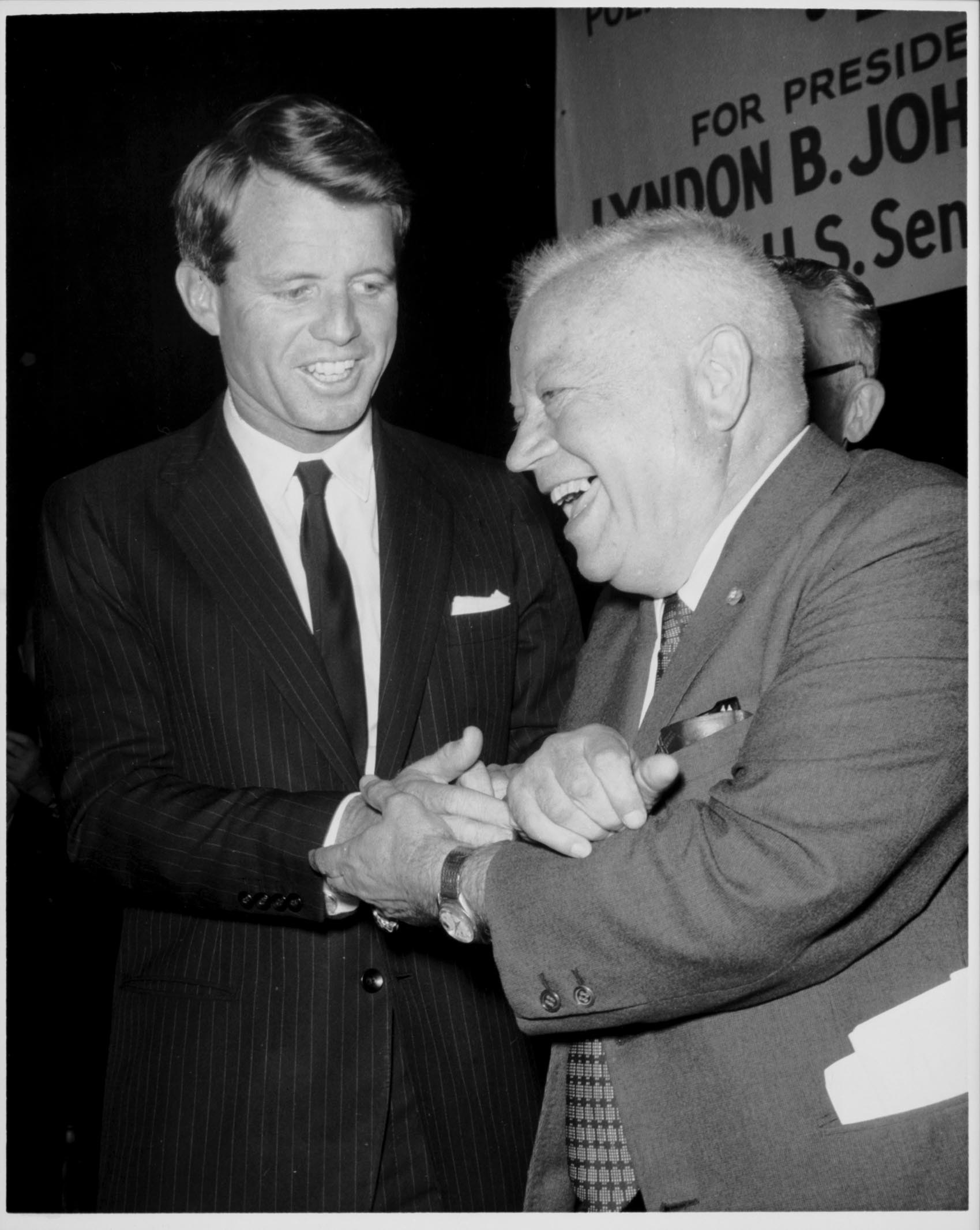 Title: David Dubinsky with Robert F. Kennedy; sign in background reads, in part, "For President: Lyndon B. Johnson." Date: Unknown Photographer: Unknown Photo ID: 5780PB17F1B Collection: International Ladies Garment Workers Union Photographs (1885-1985) Repository: The Kheel Center for Labor-Management Documentation and Archives in the ILR School at Cornell University is the Catherwood Library unit that collects, preserves, and makes accessible special collections documenting the history of the workplace and labor relations. Notes: No additional information available. Copyright: The copyright status of this image is unknown. It may also be subject to third party rights of privacy or publicity. Images are being made available for purposes of private study, scholarship, and research. The Kheel Center would like to learn more about this image and hear from any copyright owners who are not properly identified so that we may make the necessary corrections. Tags: Kheel Center for Labor-Management Documentation and Archives,Cornell University Library,Labor Leaders, Public Figures, Voting